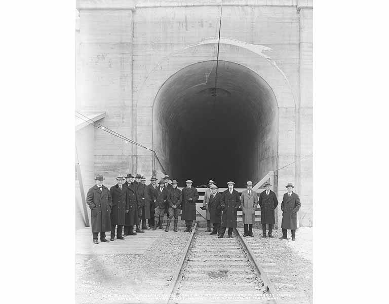 Great Northern Railway and A. Guthrie Co. officials at the entrance to the Cascade Tunnel, the longest tunnel in America (7.8 miles), January 12, 1929 Photographer: Pickett, Lee Subjects: Cascade Tunnel (Wash.) A. Guthrie and Company--Employees Railroad construction--Washington (State) Portraits, Group--Washington (State) Digital Collection: Lee Pickett Photographs Item Number: PIC0967 Persistent URL: Visit Special Collections reproductions and rights page for information on ordering a copy. University of Washington Libraries. Digital Collections